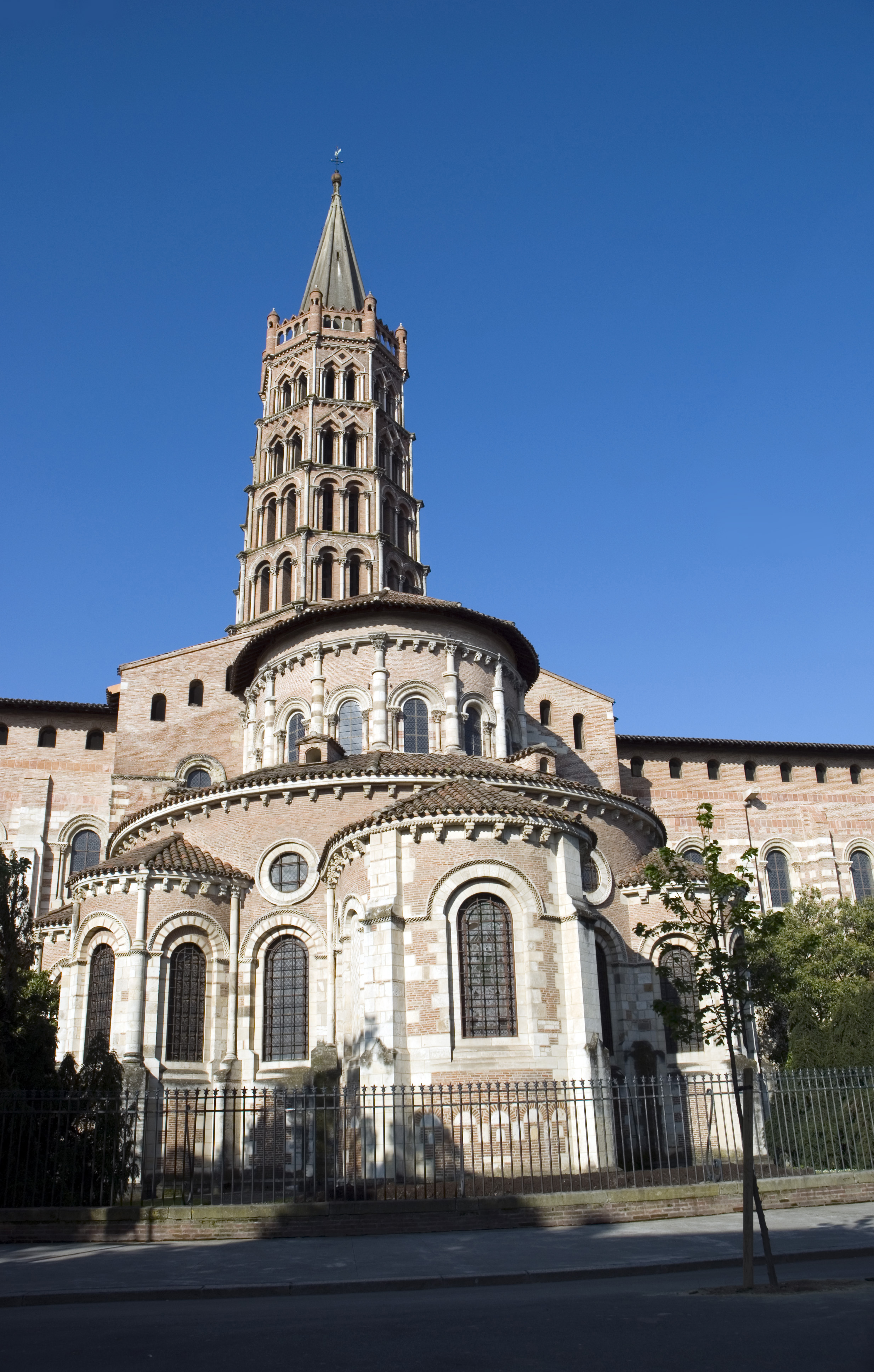 Roman apse of Basilique Saint-Sernin (Toulouse, France)